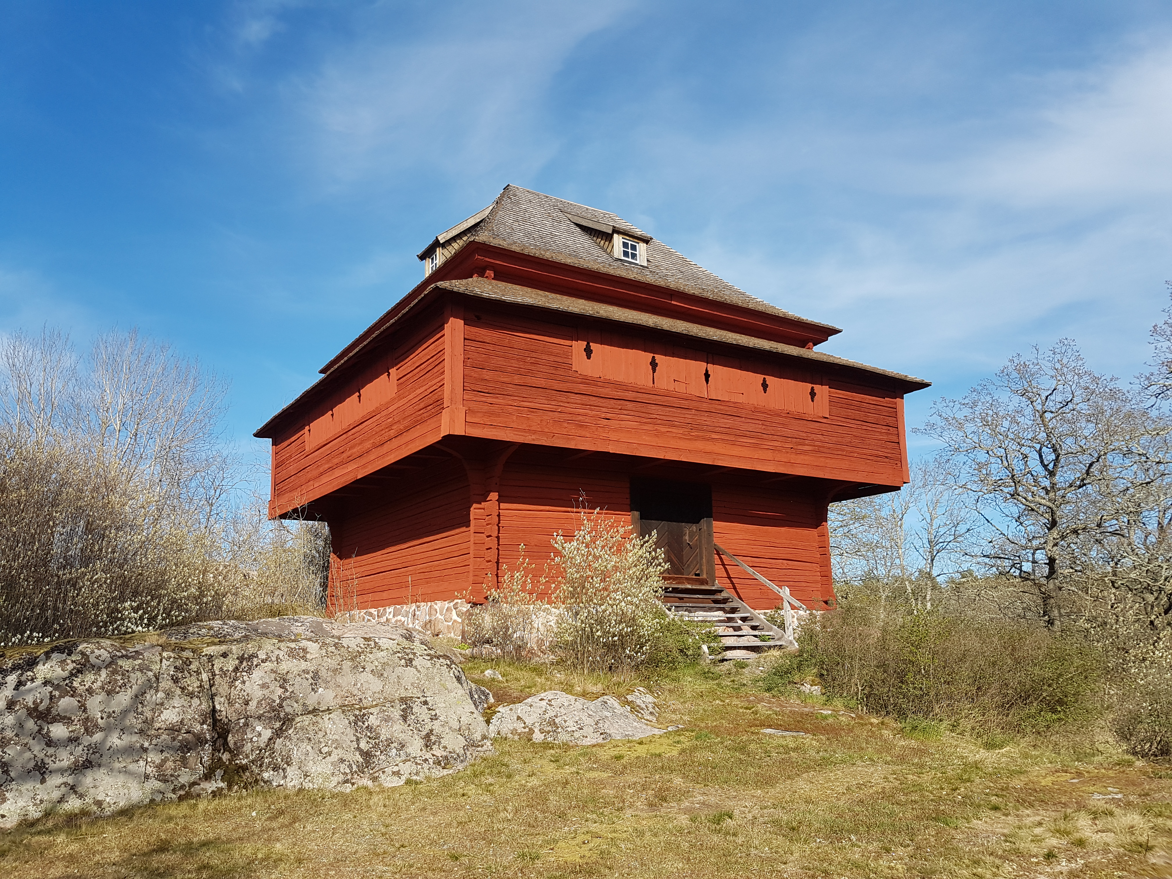 Fataburen från Björkviks herrgård.